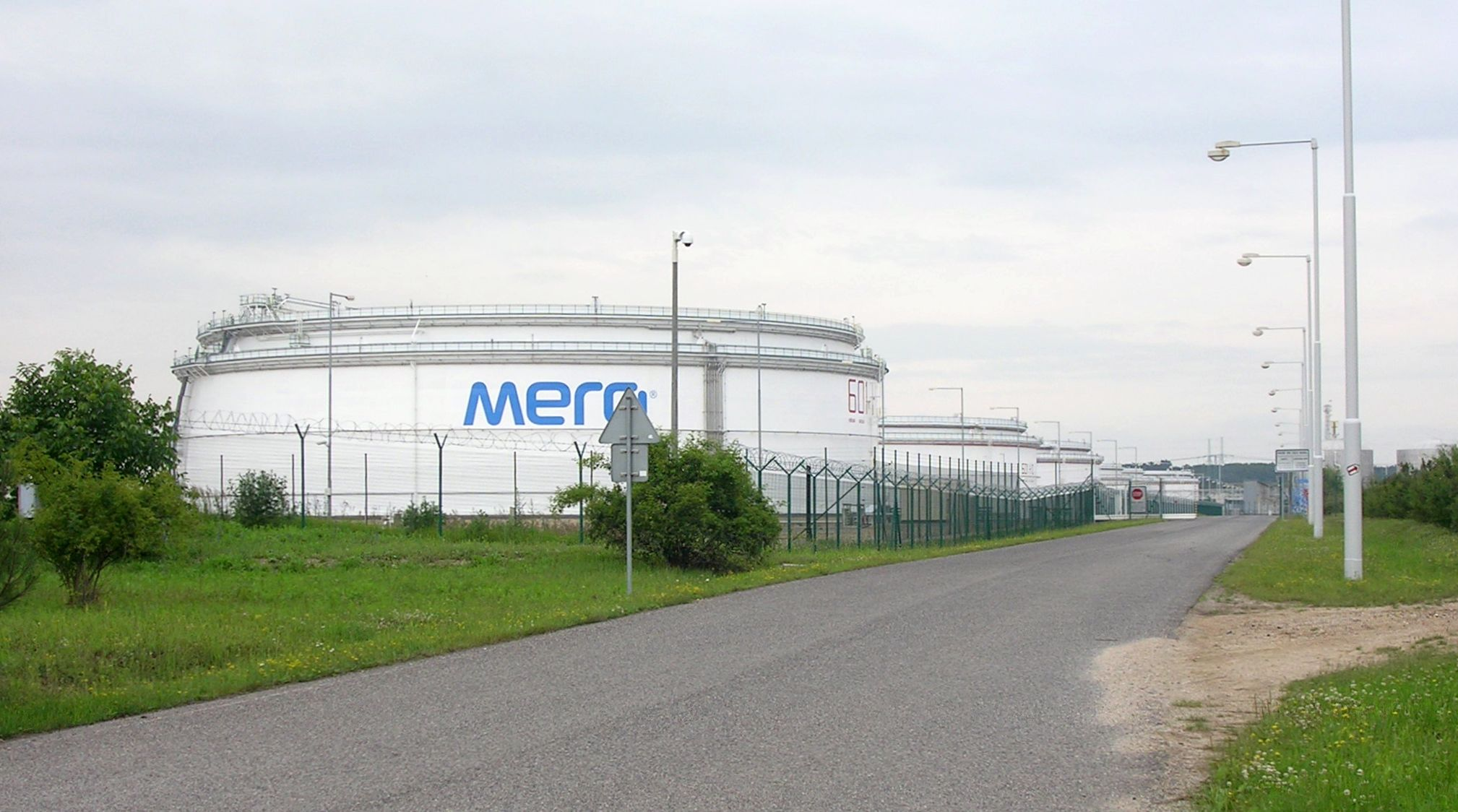 Nelahozeves-Podhořany, Mělník District, Central Bohemian Region, the Czech Republic. Central oil deposit of the Czech Republic. - Google Maps - Google Earth